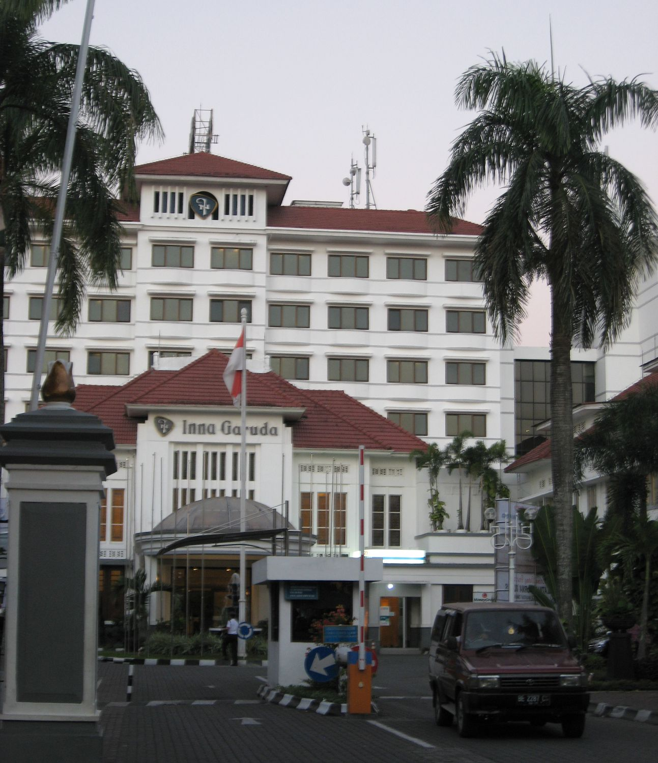 The hotel Inna Garuda, in Yogyakarta